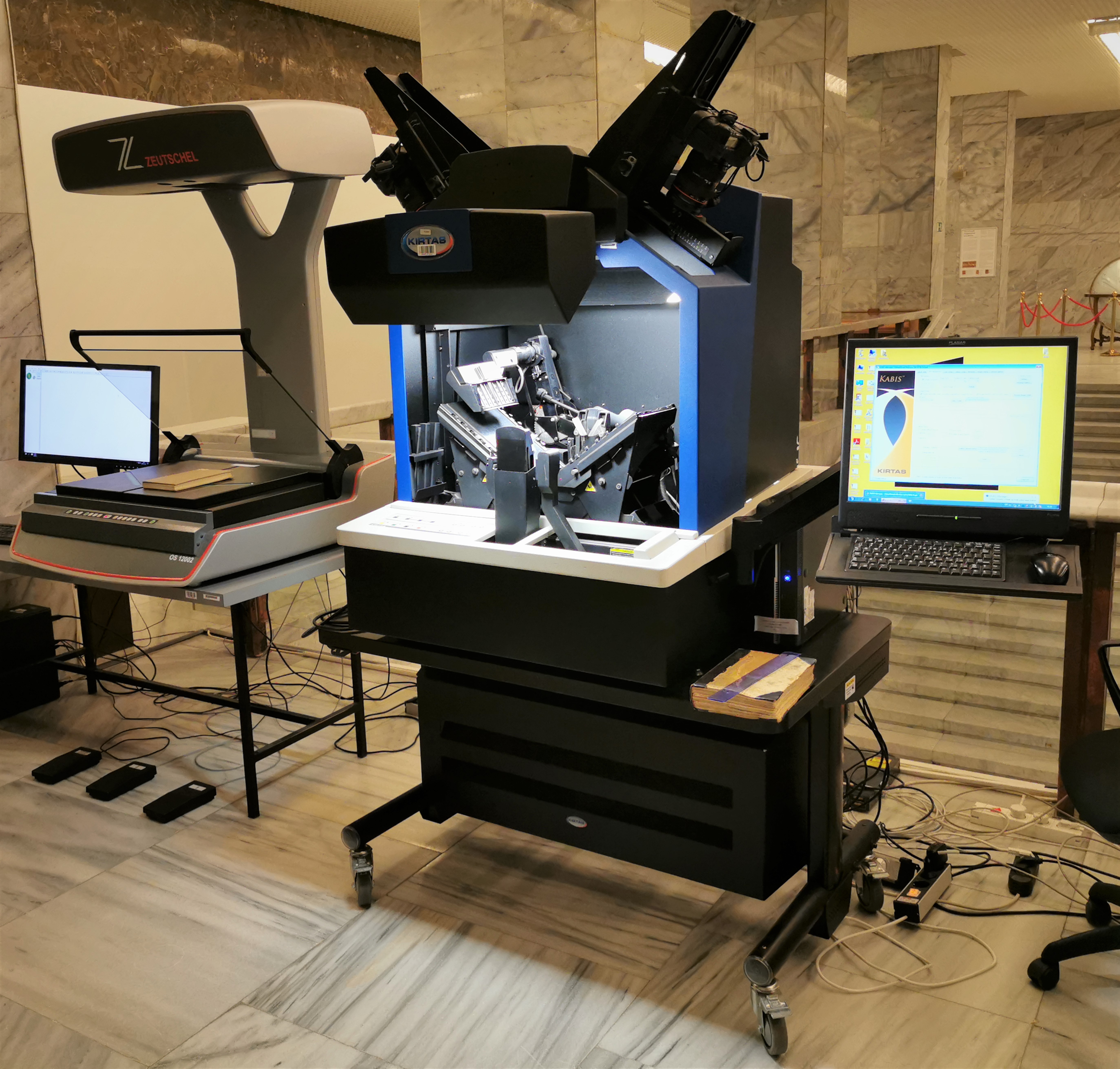 Scanners in the Országos Széchényi Könyvtár.